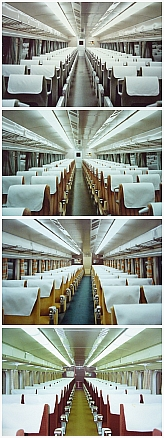 Shinkansen 0 series interiores in different times (listed from top): Cabin of 25-548 (Shinkansen 0 series, belongs to Train K32 at that time) Cabin of 25-526 (Shinkansen 0 series, belongs to Train NH15 at that time) Cabin of 15-1019 (Shinkansen 0 series Green Car, belongs to Train NH15 at that time) Cabin of Shinkansen 0-2000 series (Car serial number Unknown)